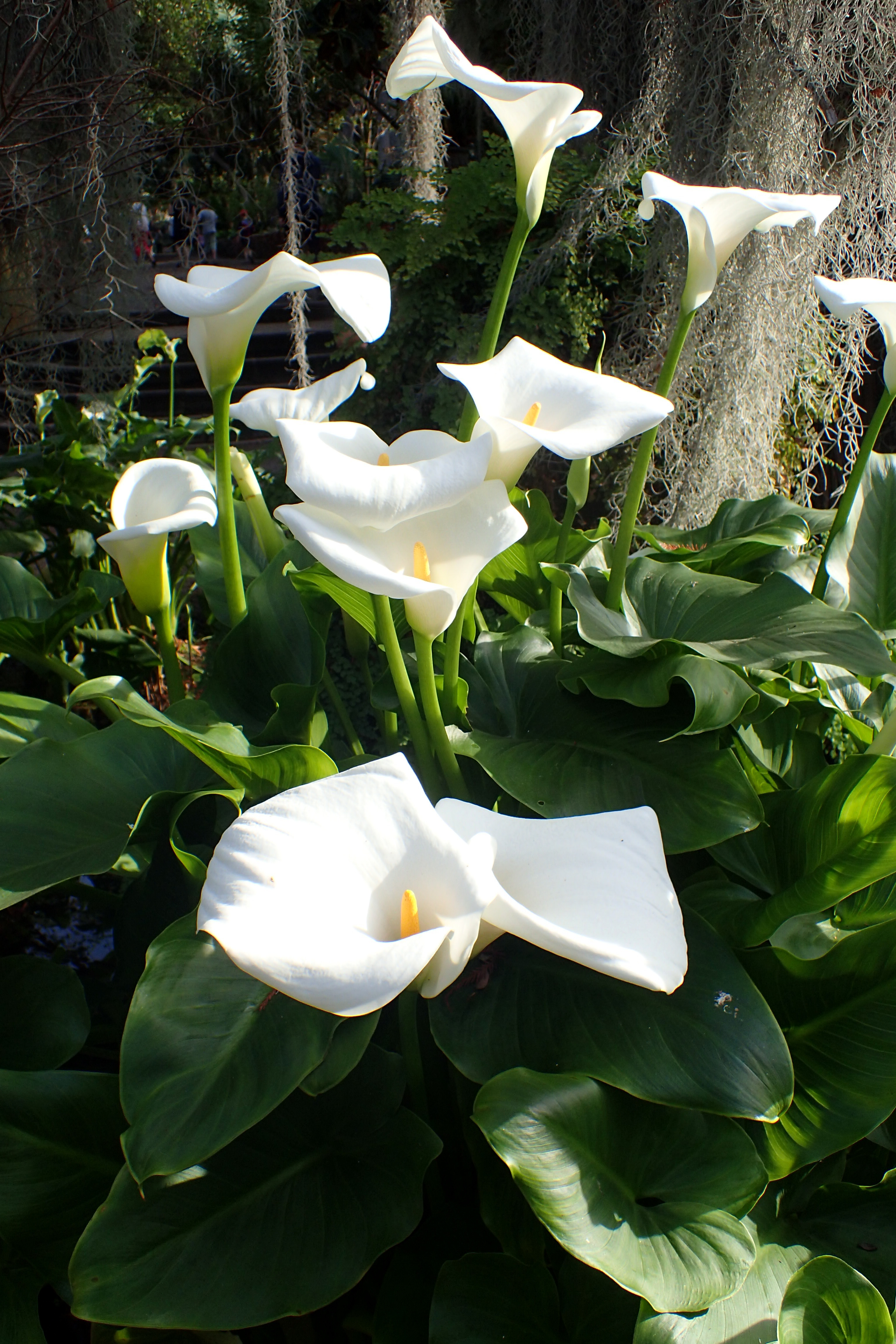 Zantedeschia aethiopica in Jardín de Aclimatación de la Orotava